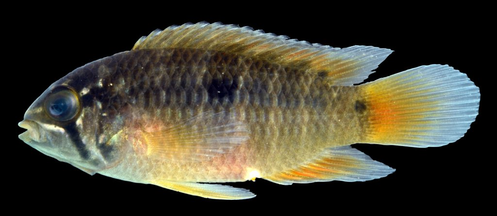 Nannacara bimaculata GUY14-28 42mm